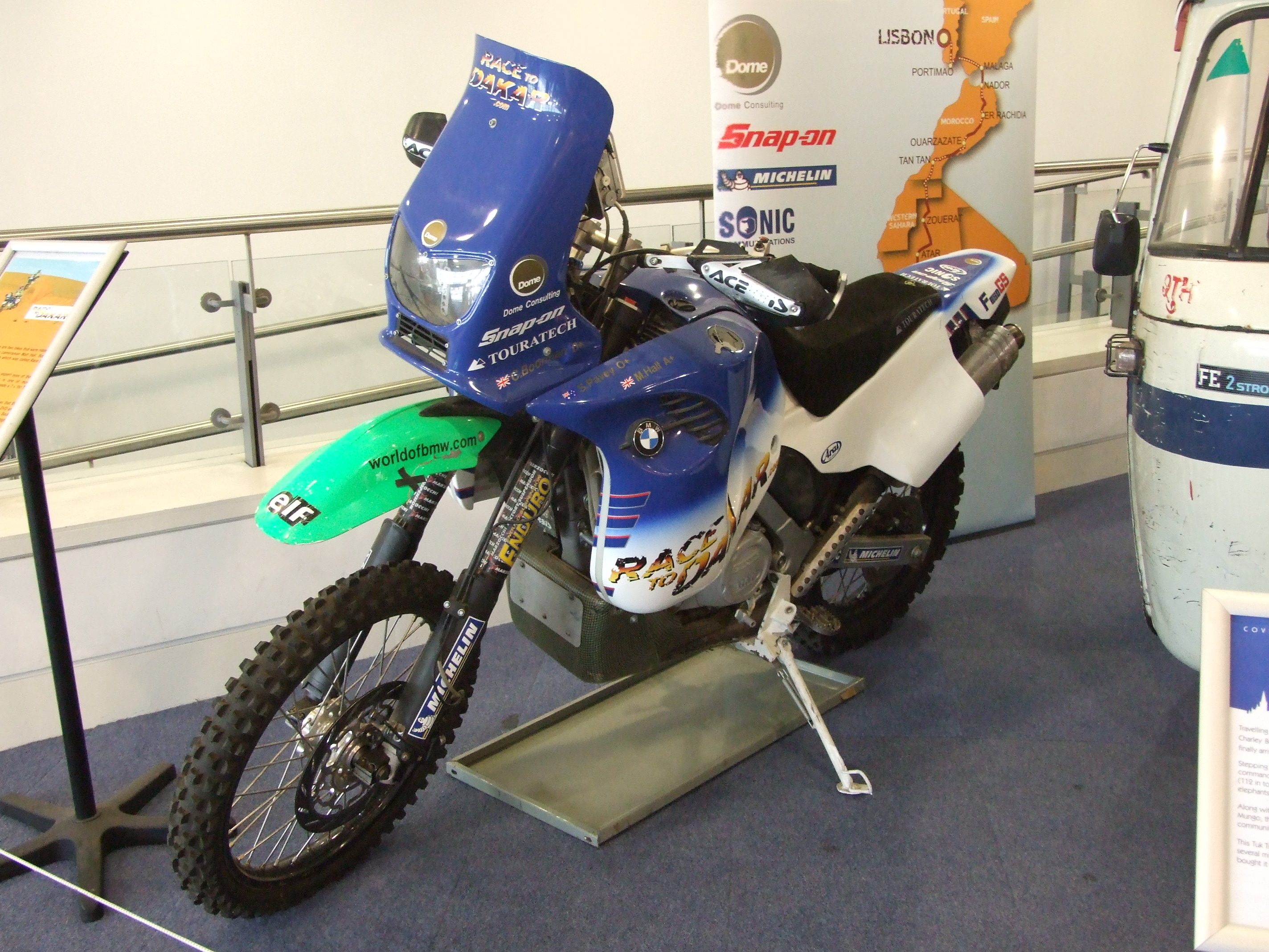 Charley Boorman's BMW F6500RR pictured at the Coventry Transport Museum